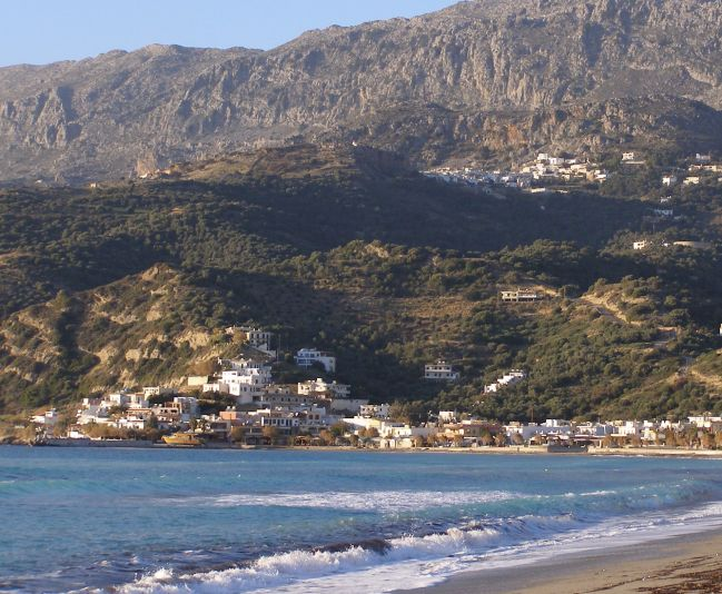 Plakias, town on the south coast of the Greek island Crete, december 2005.